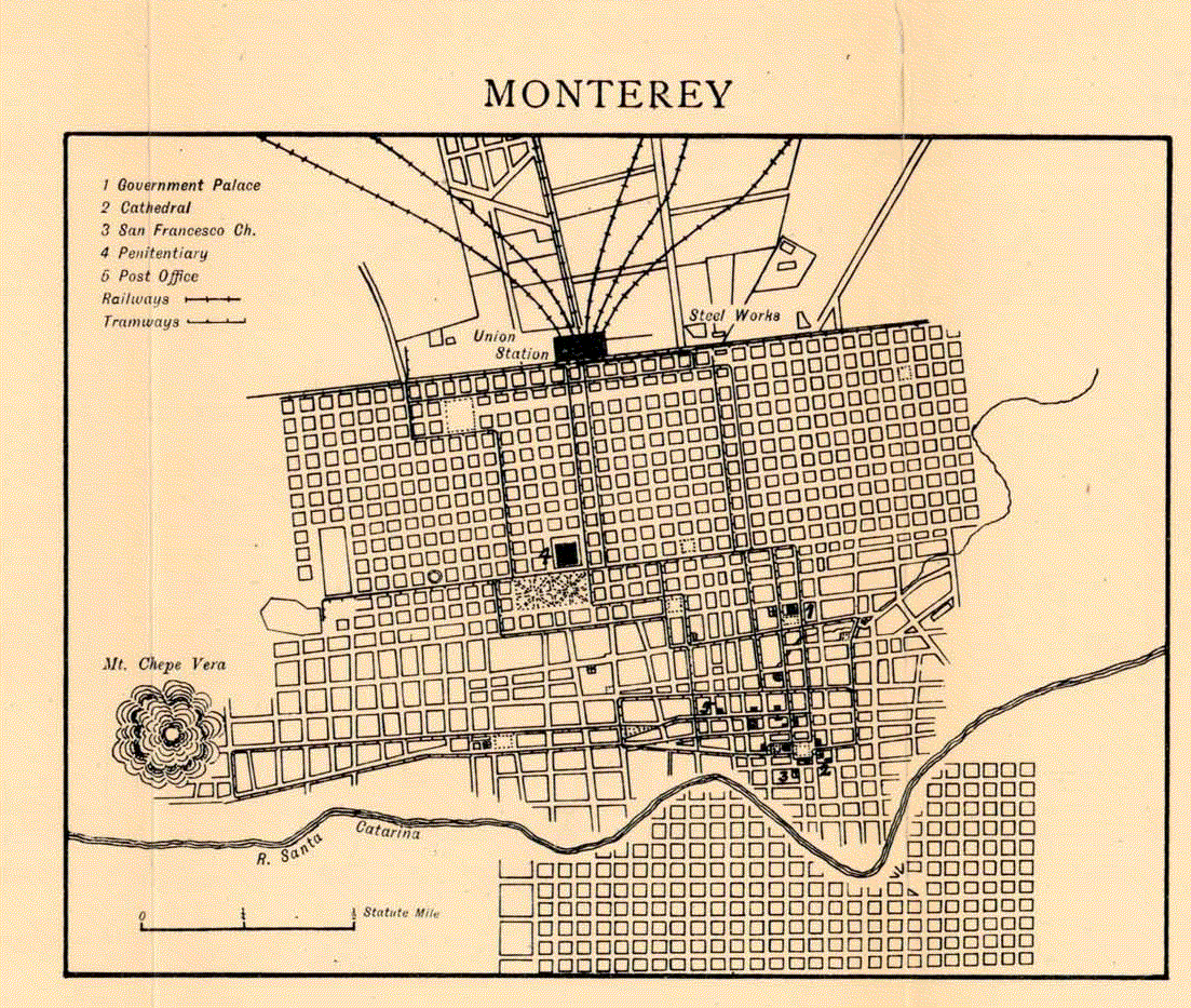 Plans of Inland Towns: Oaxaca, Monterey, Puebla, Saltillo, Toluca, Zacatecas (1919)